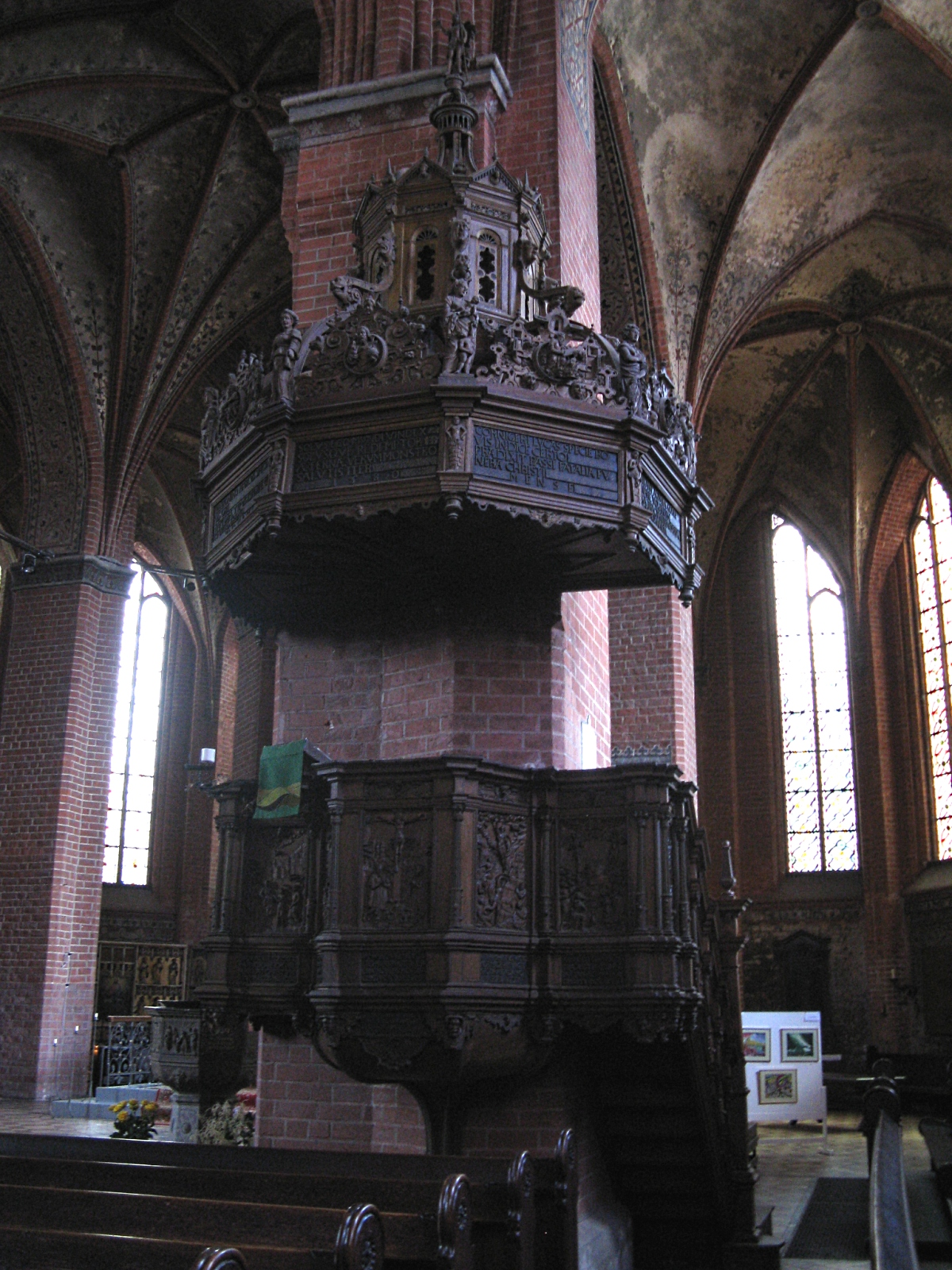 Church St. Georgen in Parchim, Germany